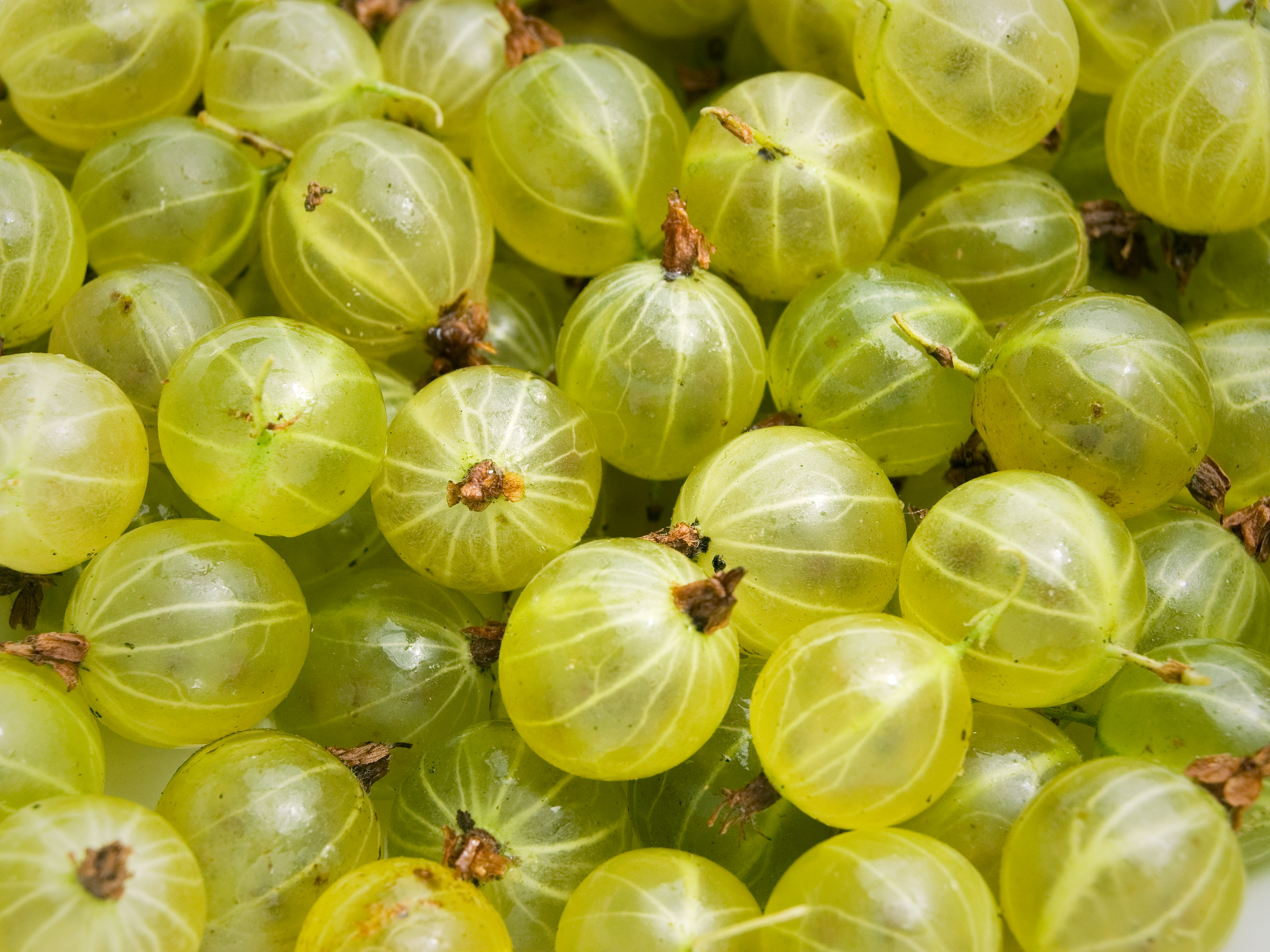 Green gooseberries.